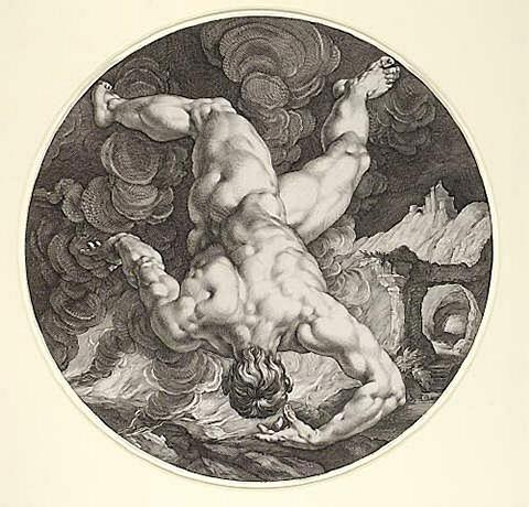 from the series The four disgracers.